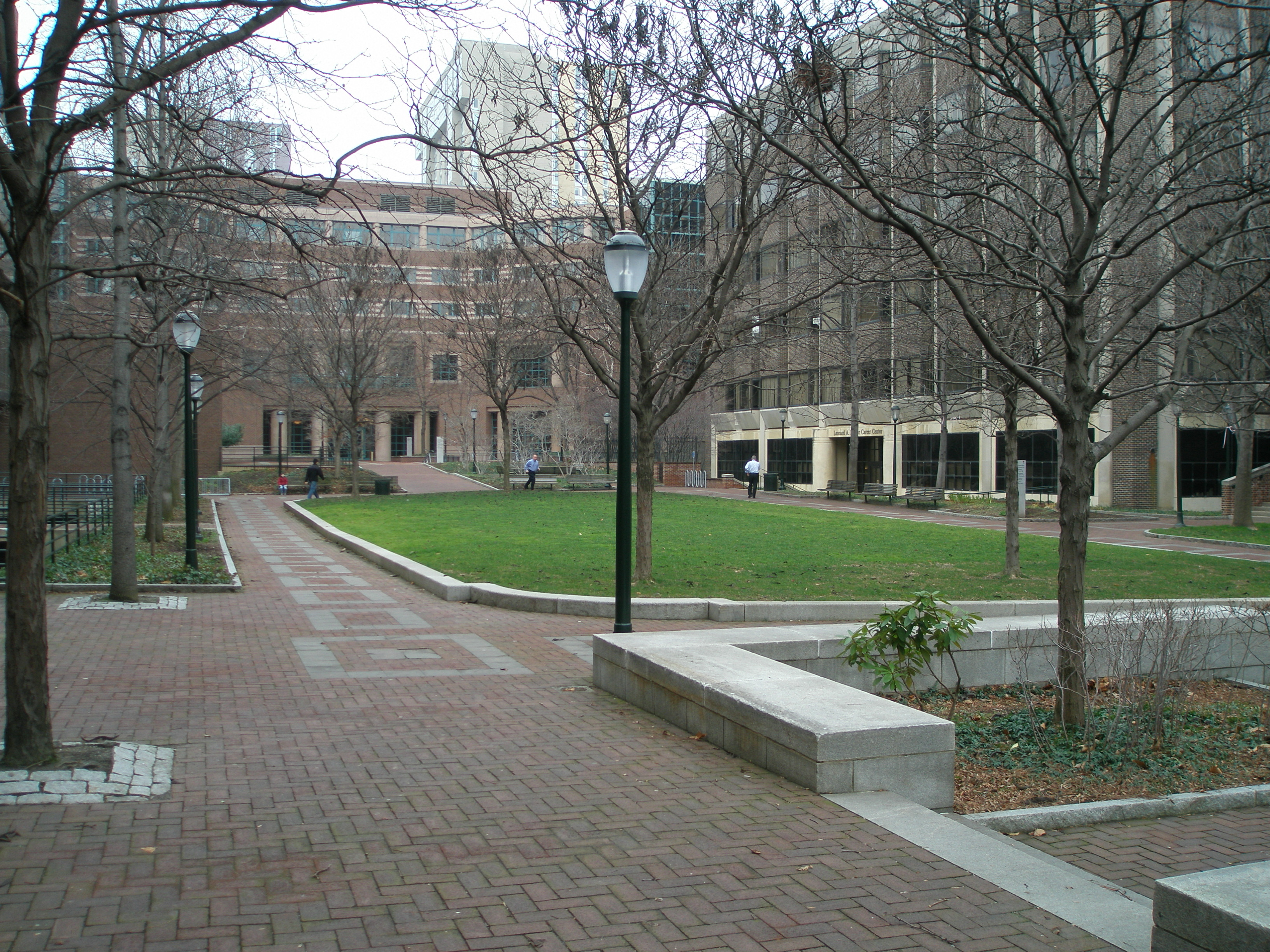 Mack_Plaza at Wharton School of the University of Pennsylvania